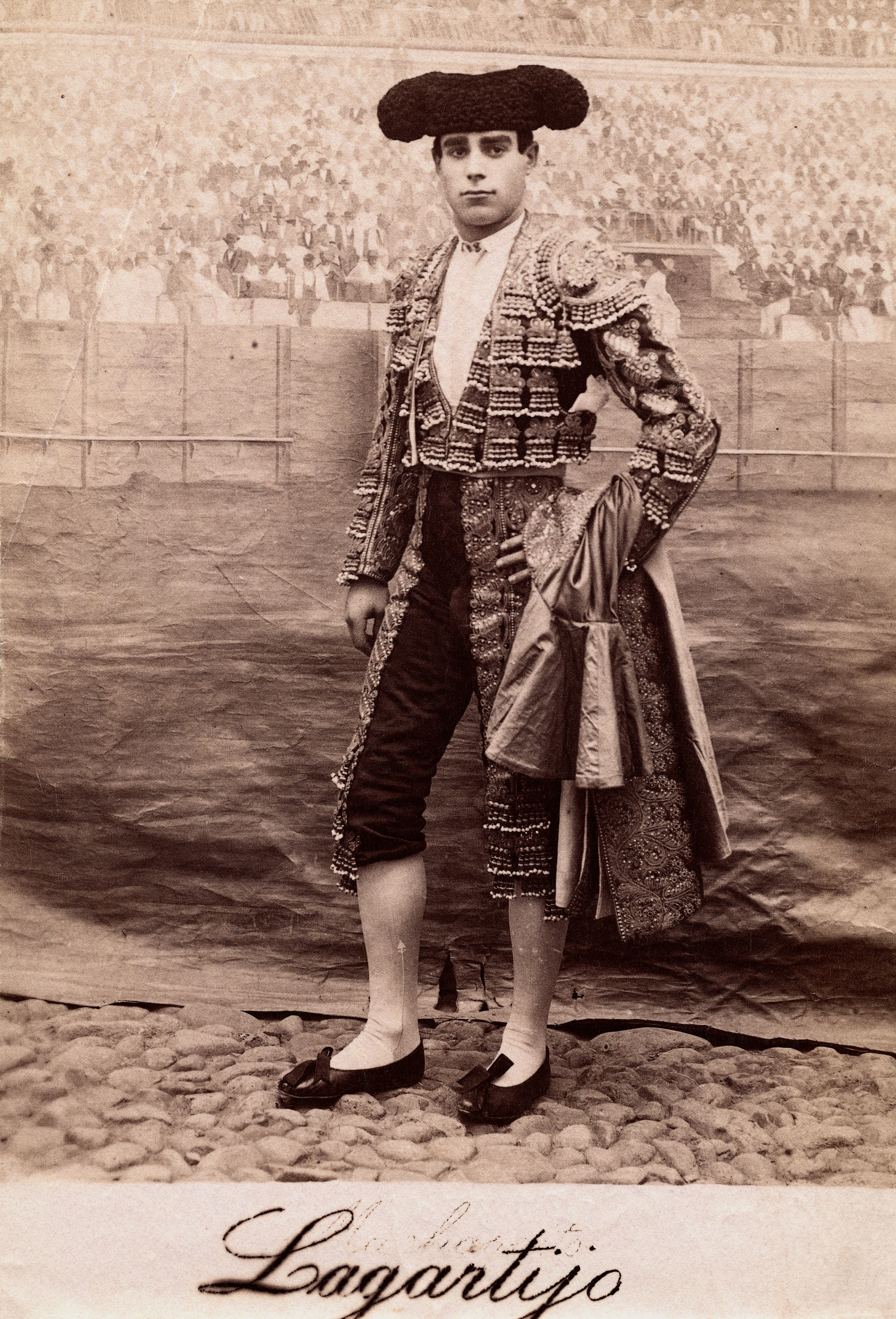 A bullfighter, Rafael Molina Sanchez "Lagartijo", posing in front of a painted backdrop of a bullring crowd, in a cobbled courtyard. Photograph, ca.1890/1910. Iconographic Collections Keywords: Lagartijo